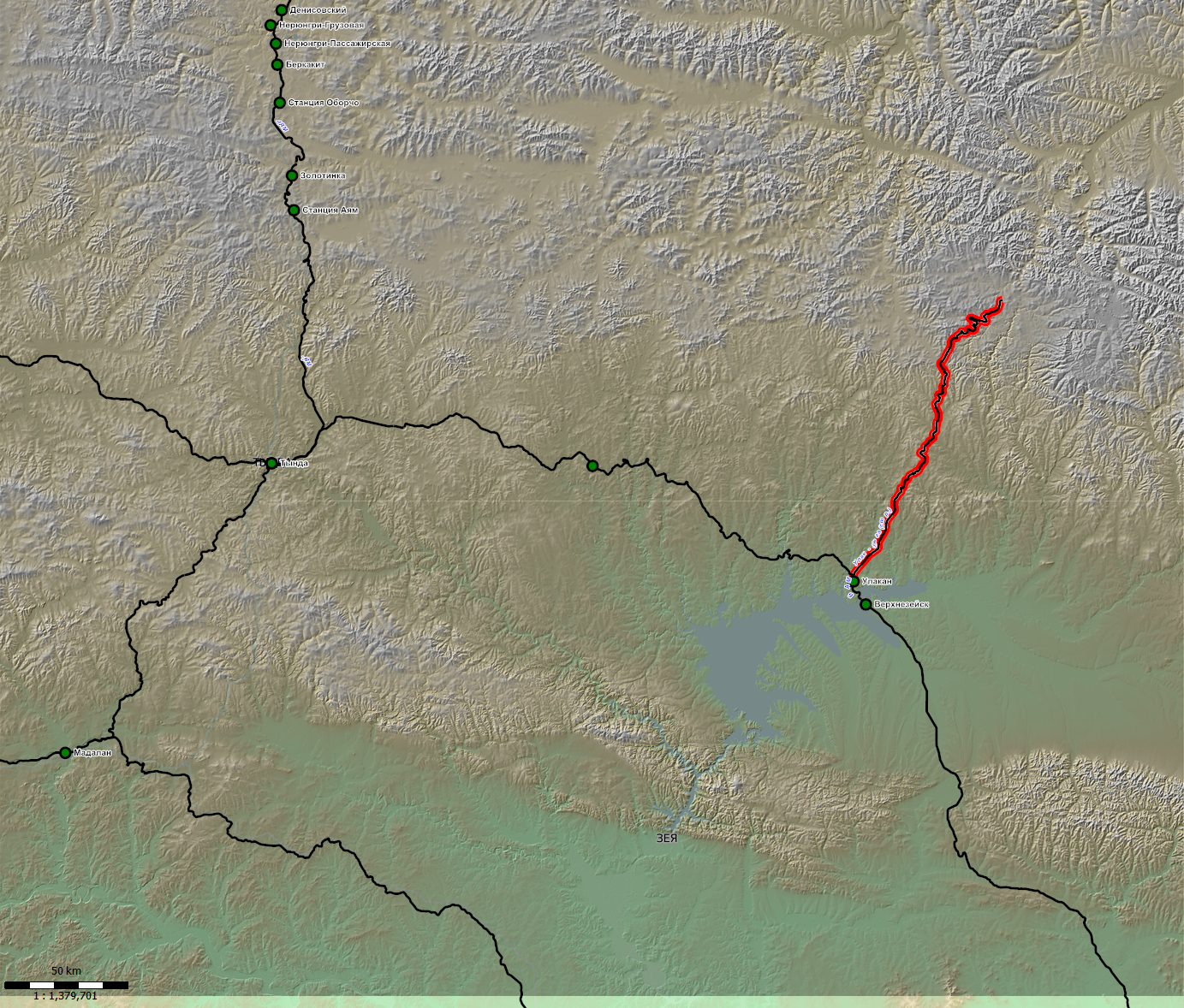 Scheme of railway branch Ulak - Elga.